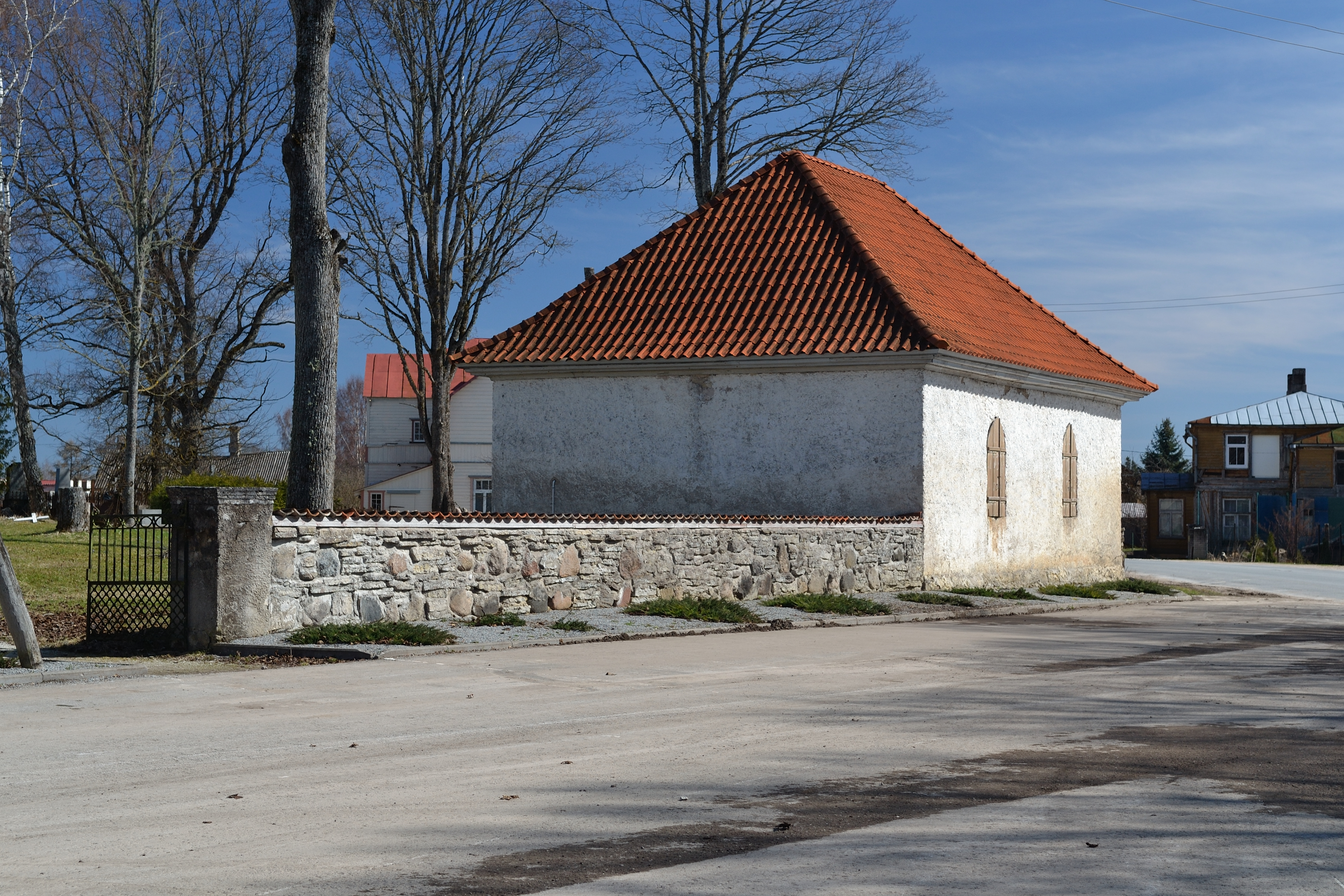 Koeru churchyard wall